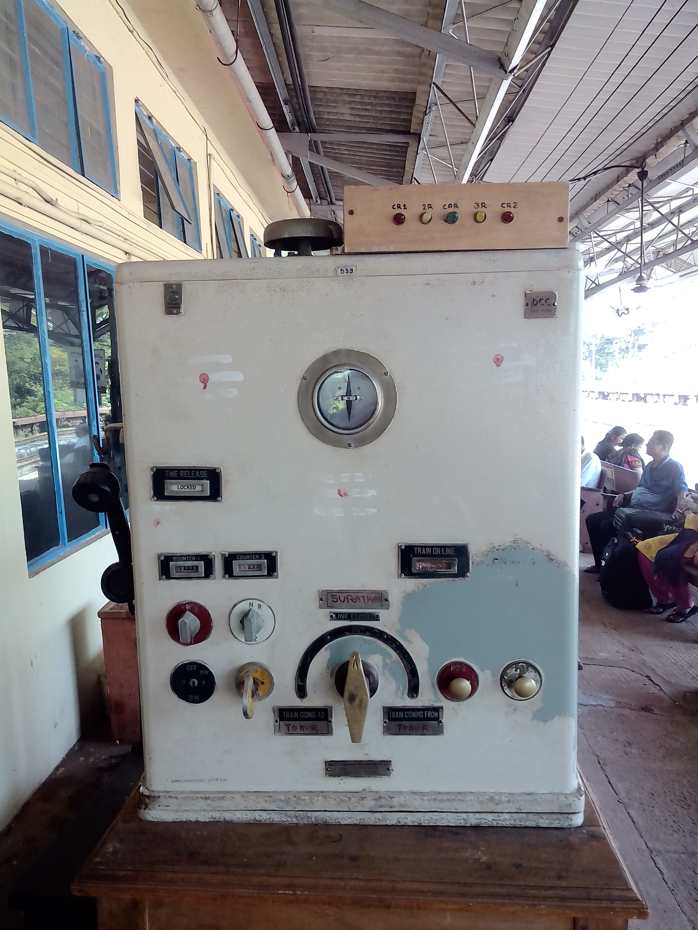 Manual signal system of Surathkal railway station . Now disbanded